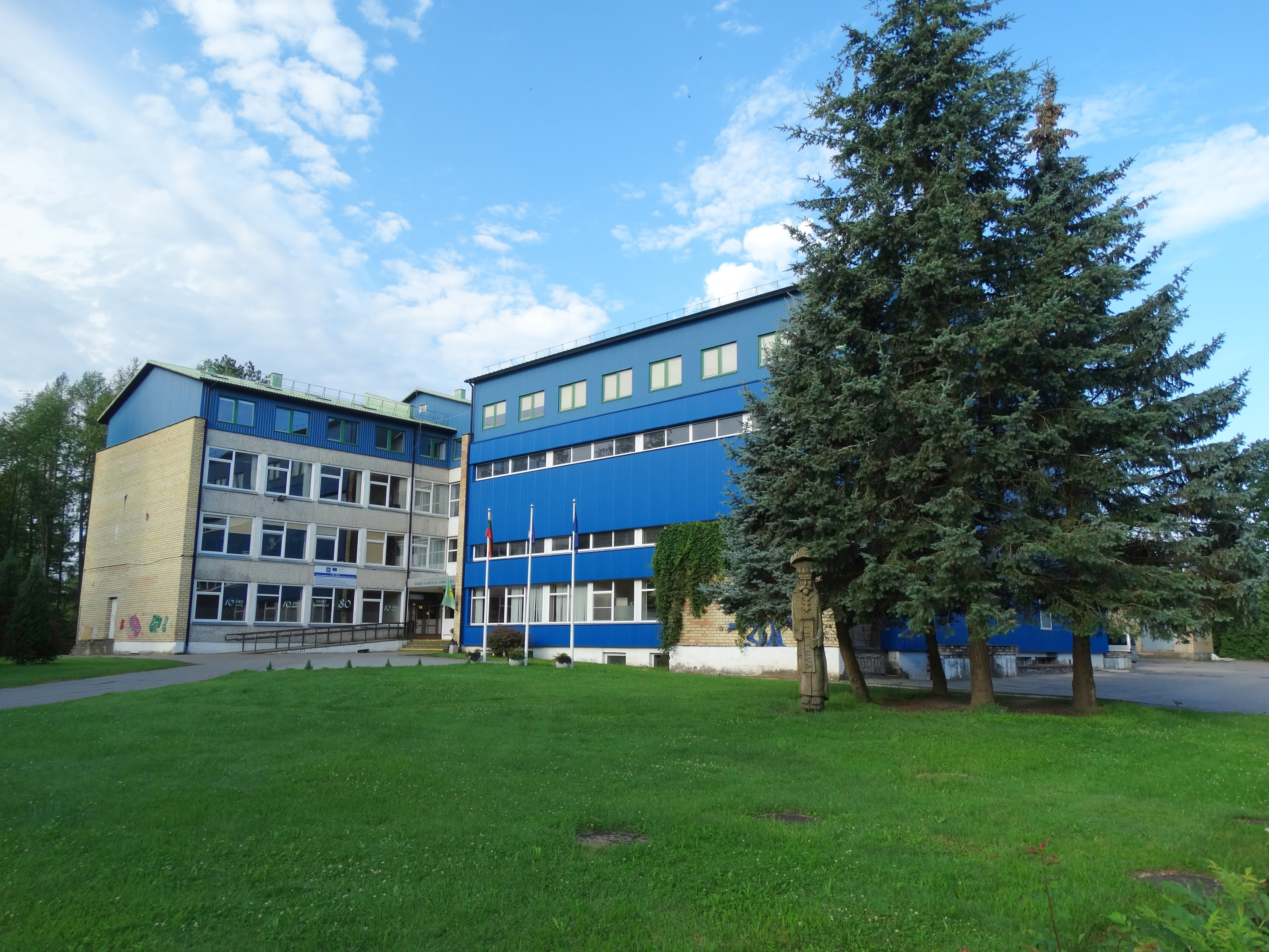 Ugnė Karvelis Gymnasium, Akademija, Kaunas district, Lithuania